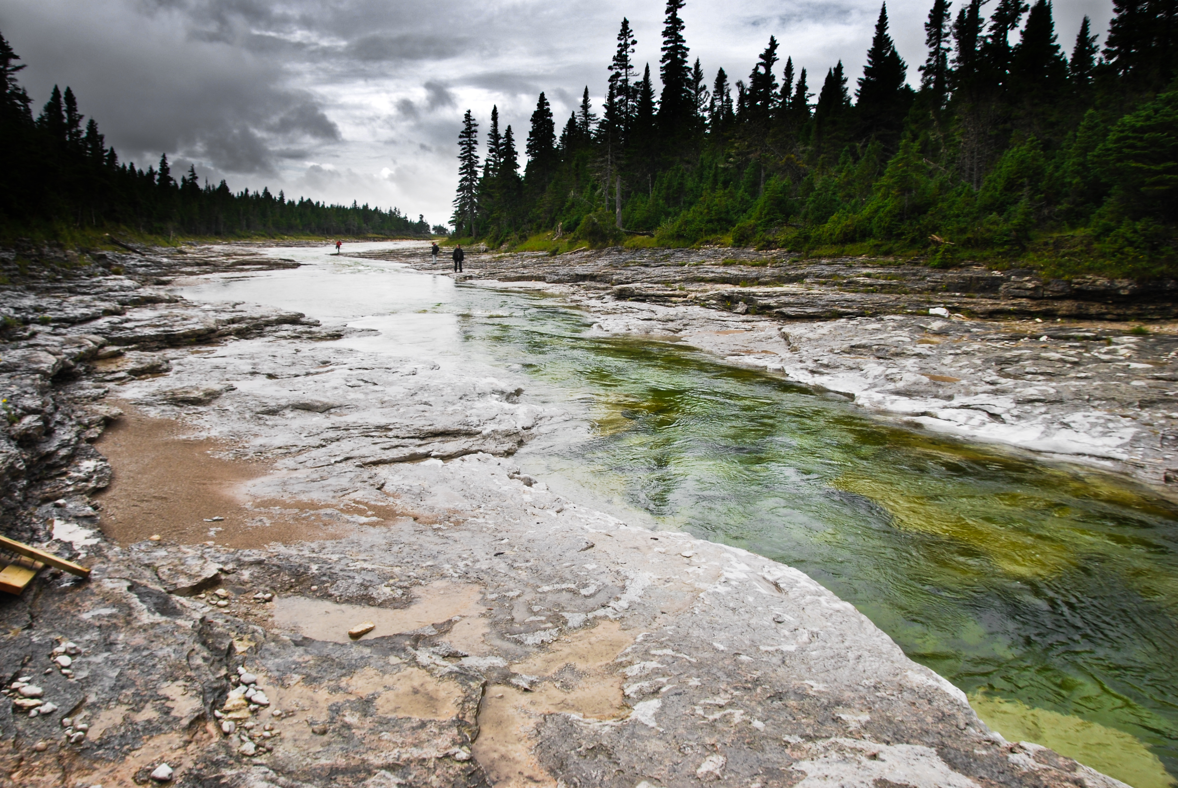 Sentier de randonnée pédestre.